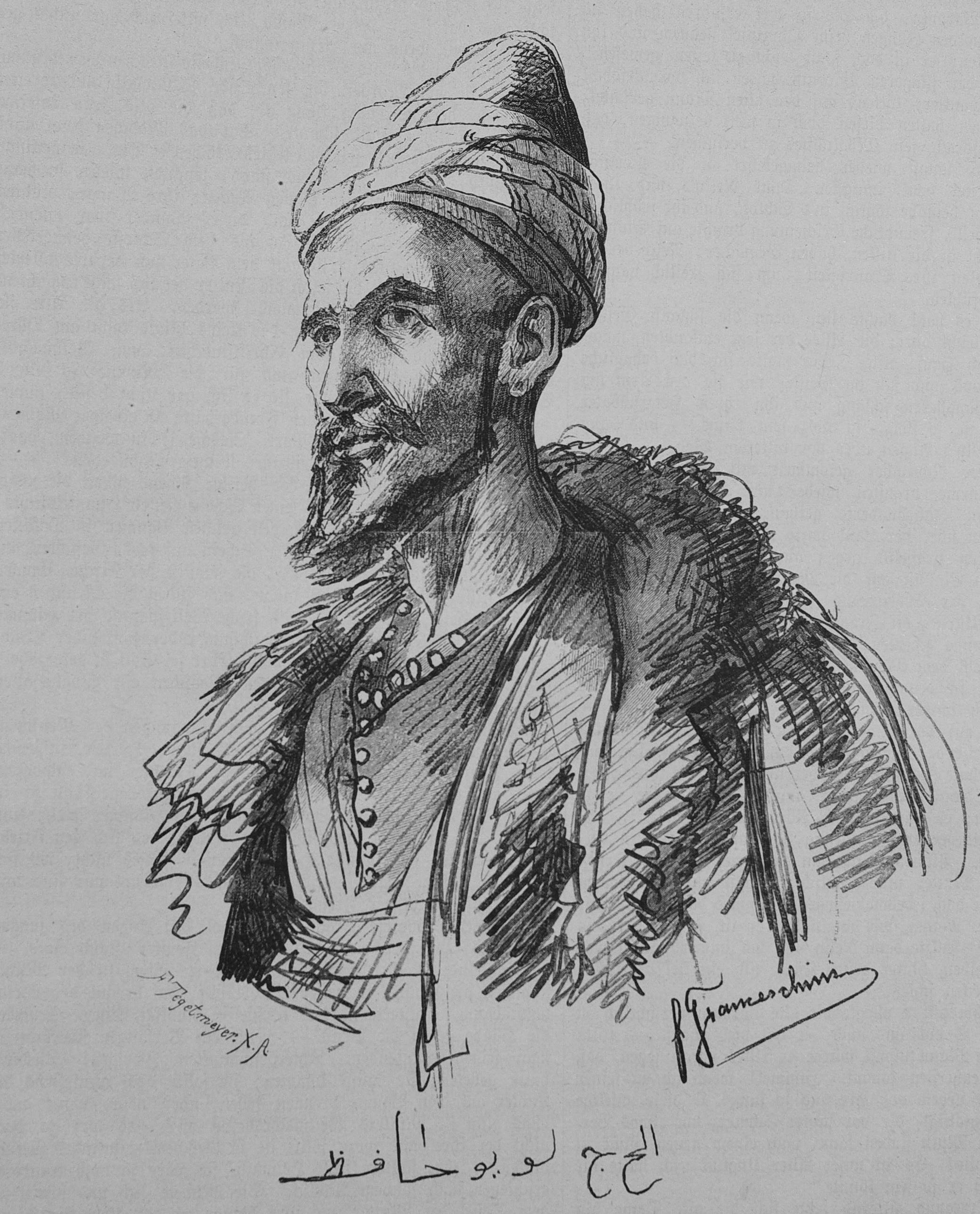 Hadži Loja in Die Gartenlaube (1878) by Friedrich Franceschini.